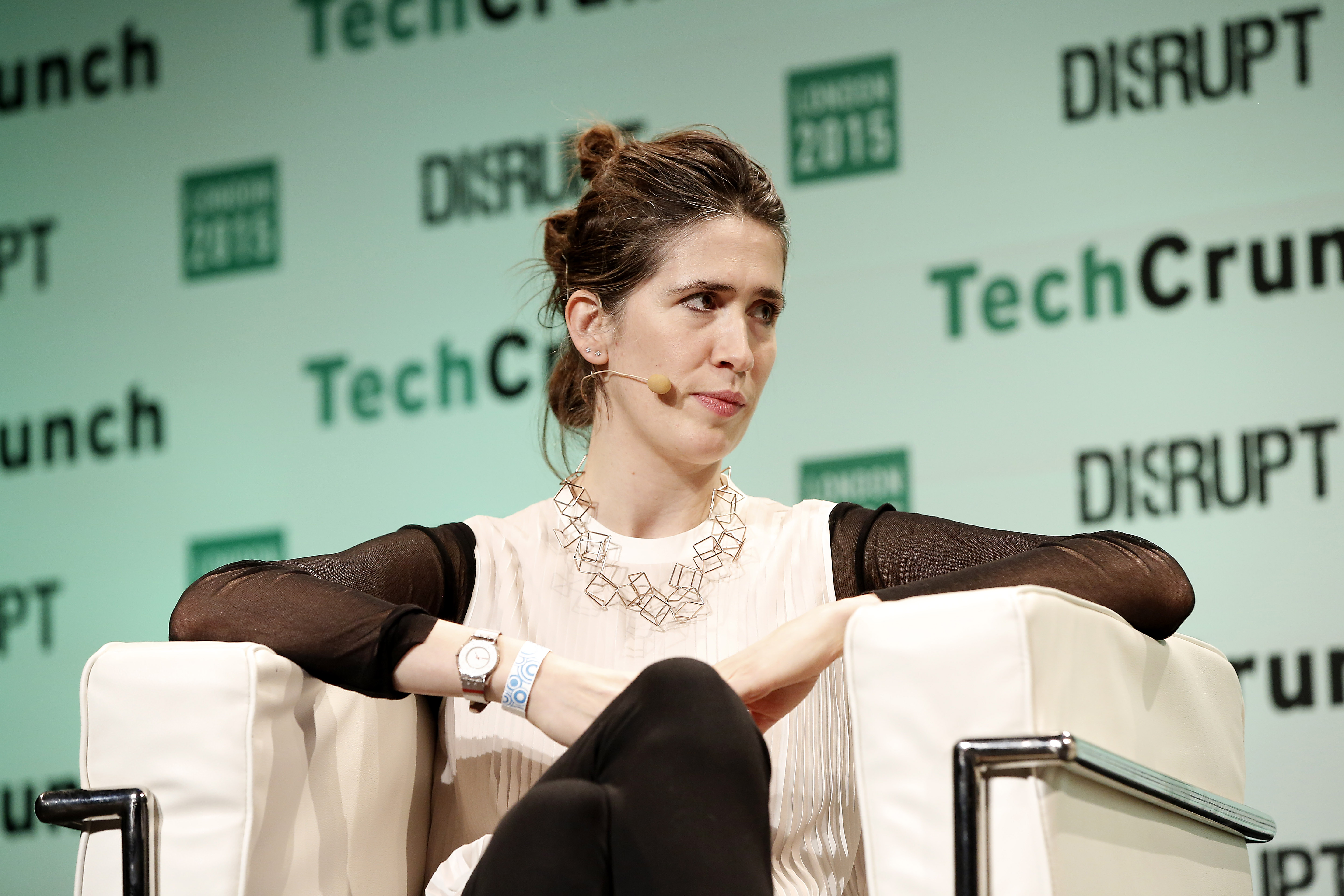 LONDON, ENGLAND - DECEMBER 08: Imogen Heap during TechCrunch Disrupt London 2015 - Day 2 at Copper Box Arena on December 8, 2015 in London, England. (Photo by John Phillips/Getty Images for TechCrunch)